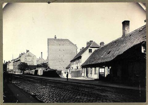 Vodroffs Nyhuse in the Frederiksberg district of Copenhagen, Denmark. Built in 1846 and demolished in 1928 to make room for a residential building designed by Kay Fisker in collaboration with C. F. Møller.